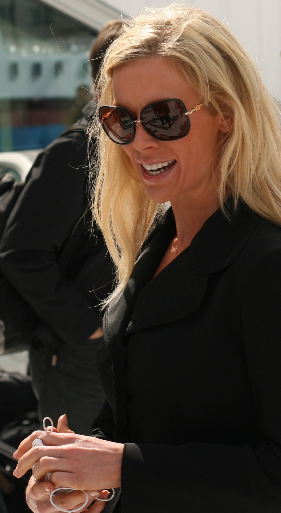 Gunhild_Melhus, wife of Petter Stordalen.